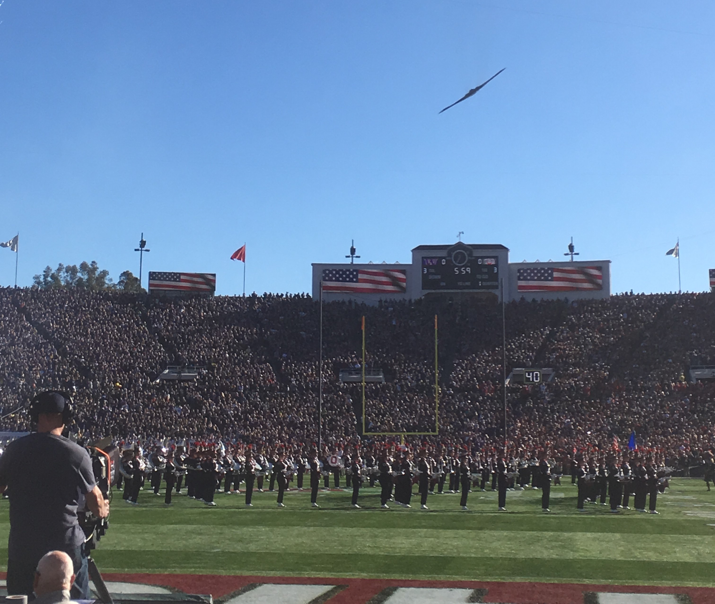 B-2 Spirit flyover after the National Anthem at the 2019 Rose Bowl. Ohio State and Washington Marching bands are on the field.